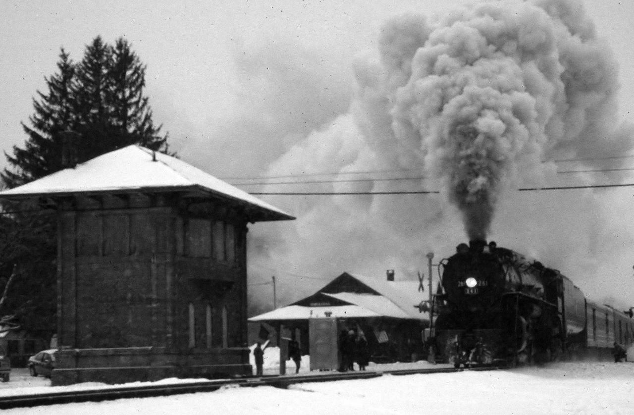 MILW 261 on a winter steam excursion, passing the tower and depot at Tobyhanna, Pennsylvania. February 1996. Scan from 35mm slide.